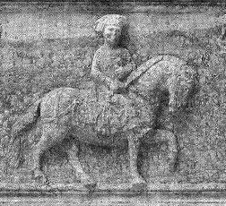 Tomb of Alberto I della Scala (detail of Alberto riding a horse)